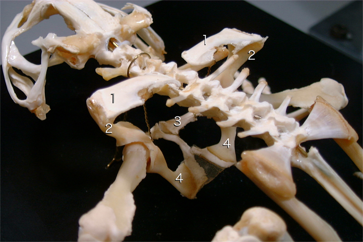 Shoulder girdle of Bufo bufo 1.suprascapula 2.scapula 3.clavicle 4.procoracoid photograph taken by Preto(m)